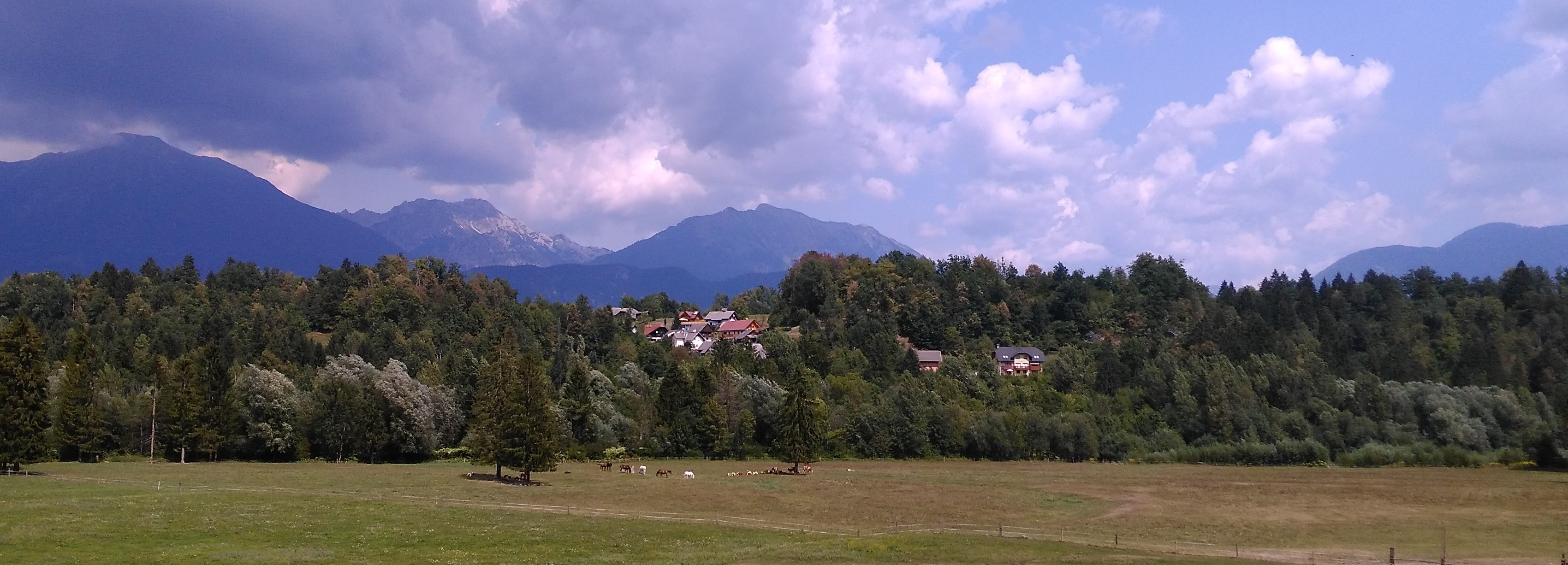 Bodešče near Bled